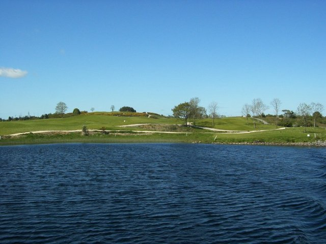 Carrick-on-Shannon Golfcourse